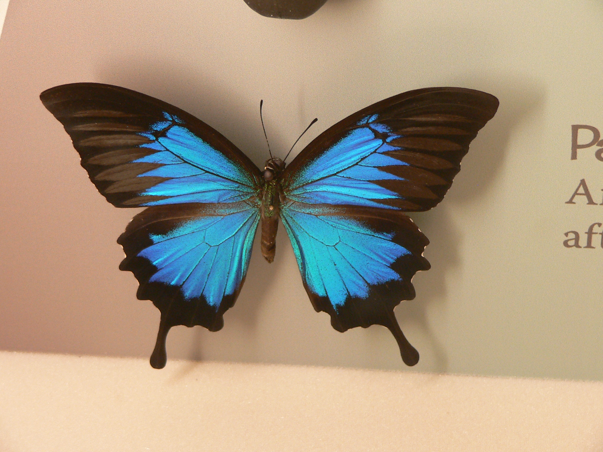 Pictures taken by myself at the Audubon Insectarium